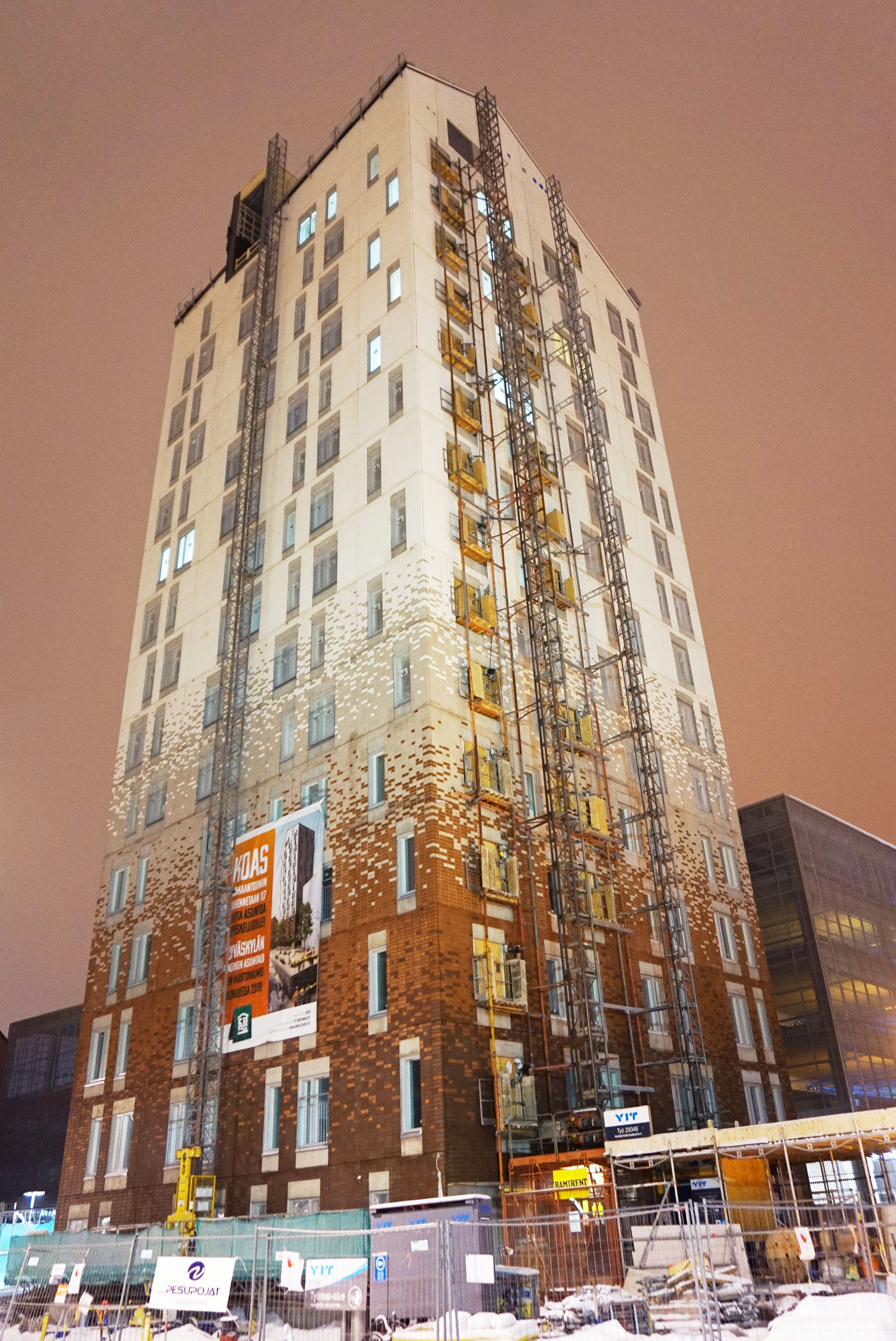 KOAS tower in Jyväskylä at January 2018.This photograph was taken with a Sony ILCE-5000